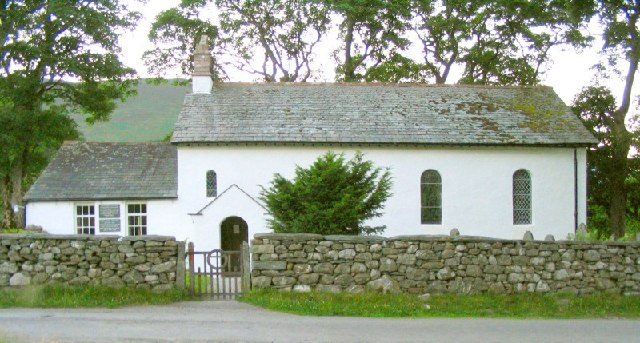 Newlands Church and (left) former school, near Little Town, Over Derwent, Cumbria, seen from the south